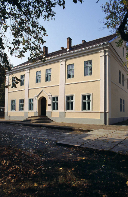 Knez Mihajlo, konak.